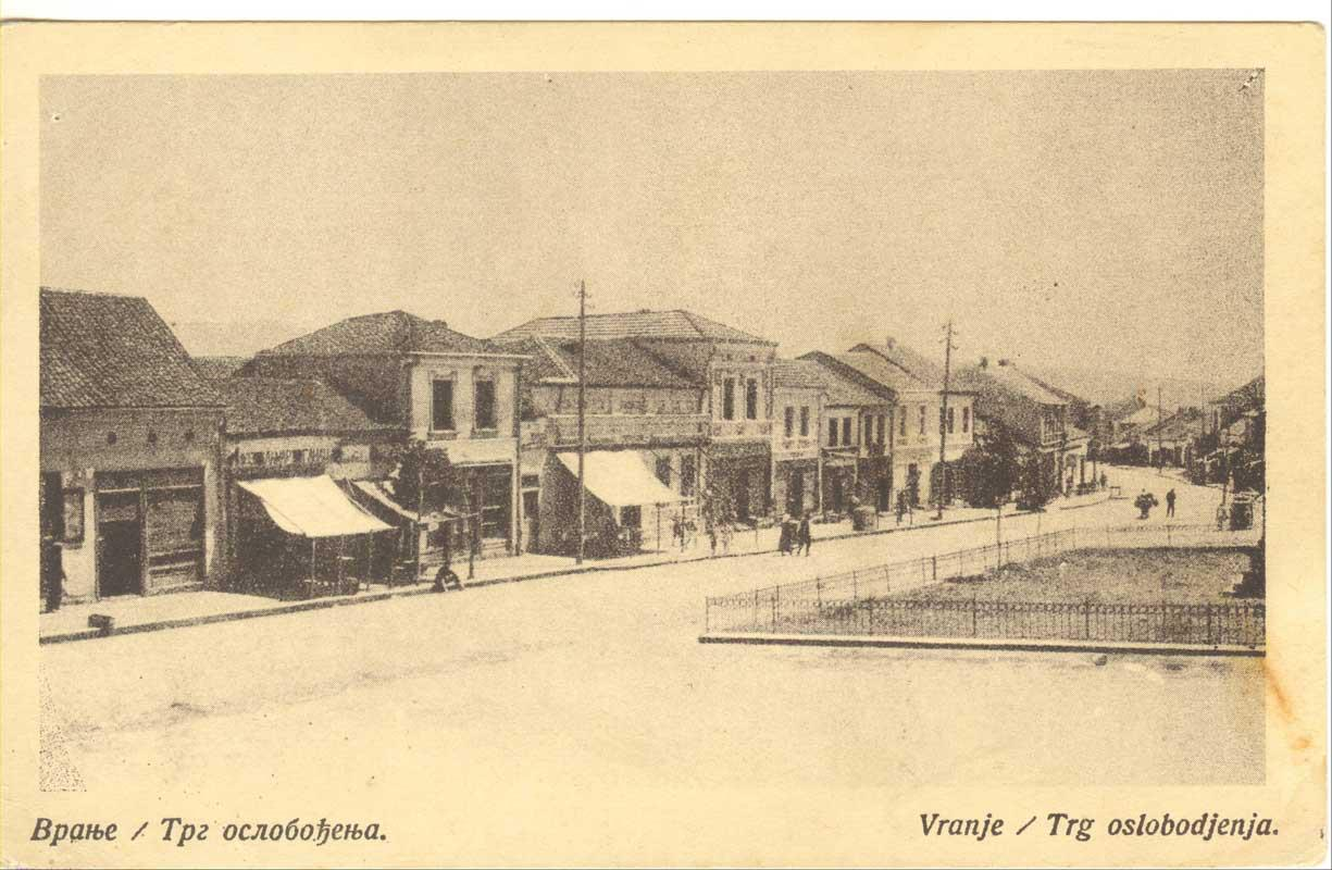 Vranje, Trg Oslobođenja, photograph taken between 1878 and 1918.